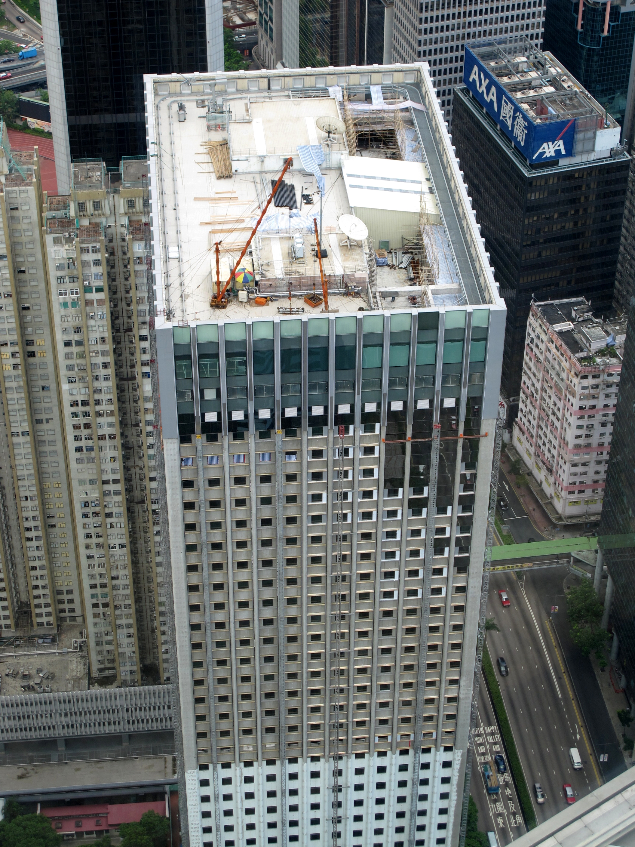 China Resources Building during renovation 翻新中的華潤大廈